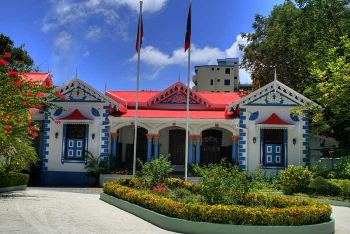 photo taken and modified by uploader (A_robustus)